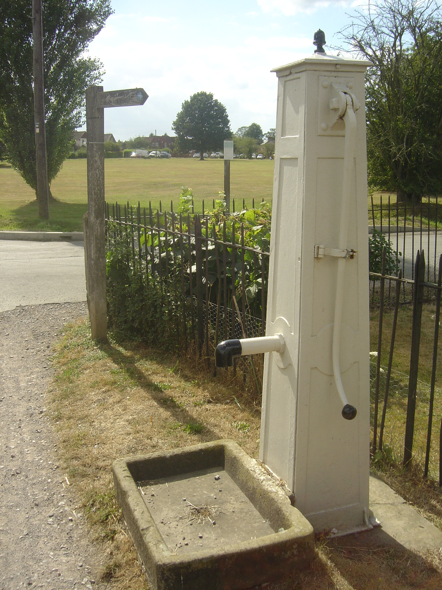 The village water pump in Downside, Surrey, England